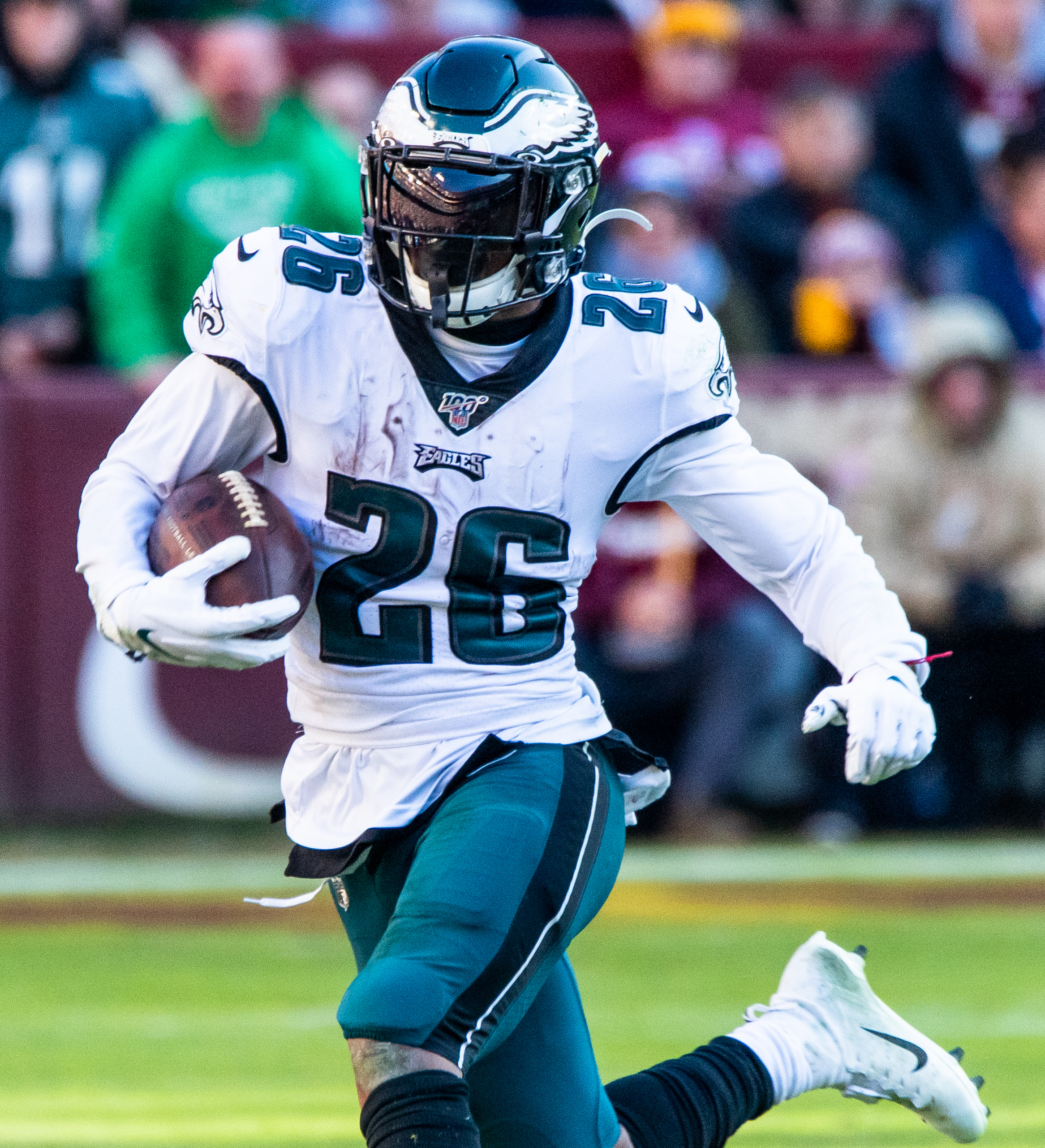 Sanders running with the ball